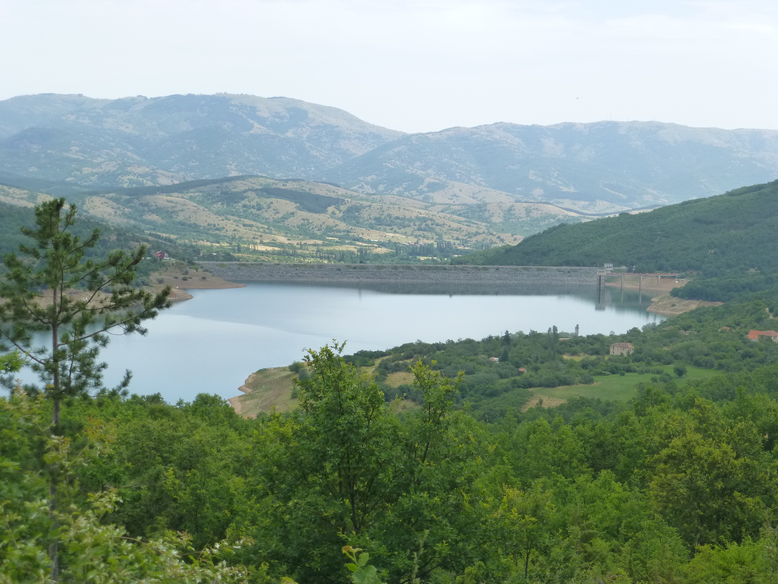 Views from a forest road south-west of Streževo Village, above Lake Streževo.